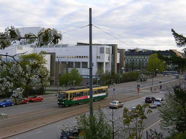 Helsinginkatu, Helsinki, tram 8, the Opera House in the background